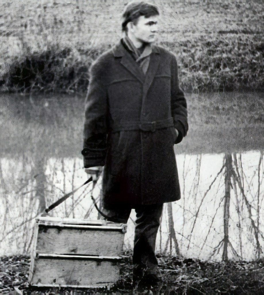 Self-portrait of Igor Gubskiy, student years